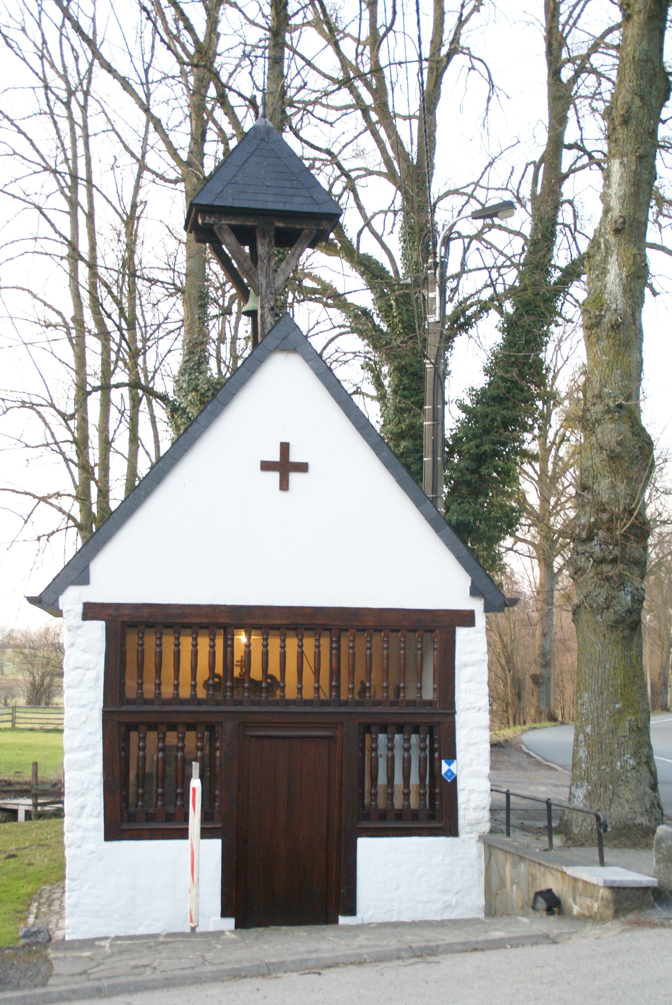 Lontzen (Belgium): Astenet, Saint John's Chapel